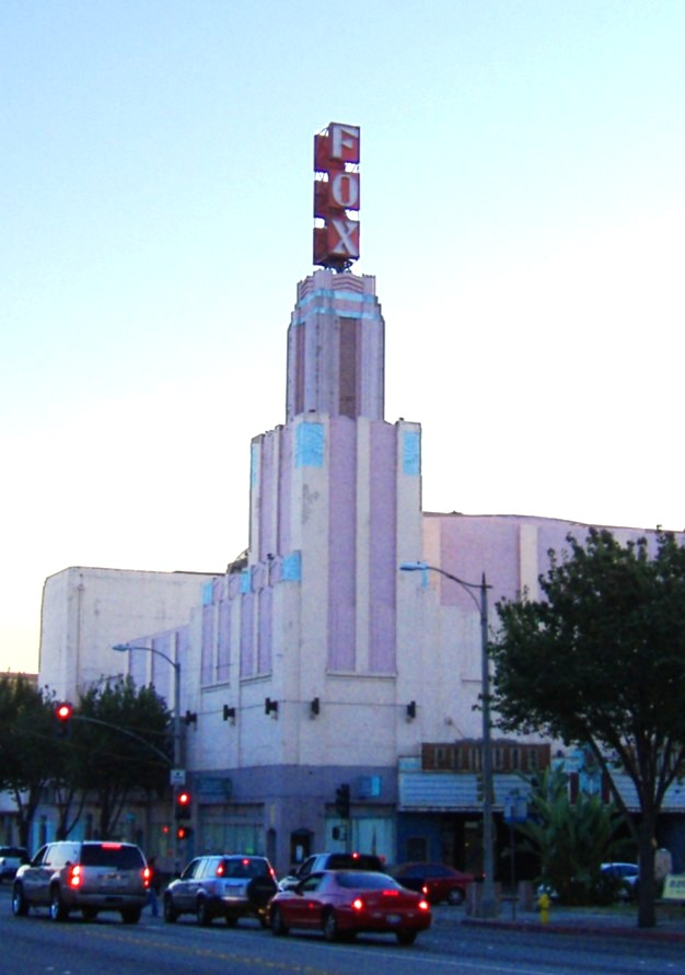 Pomona Fox Theater date: October 2006 When built in 1930, the Fox Theater was a premier example of Art Deco architecture, featuring an 81-foot high tower and 1,000-voiced pipe organ. From the 1930s through the 1960s, the Fox was an important landmark in downtown Pomona, often serving as the venue for movie premiers orchestrated by major Hollywood studios.